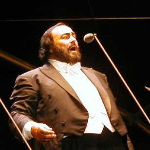 Luciano Pavarotti in Vélodrome Stadium, 15/06/02.